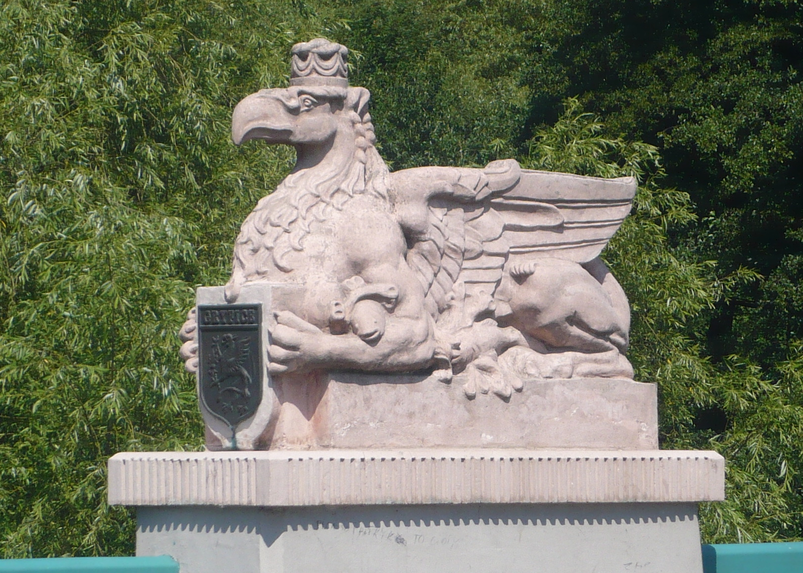 Griffin on bridge in Gryfice, Poland